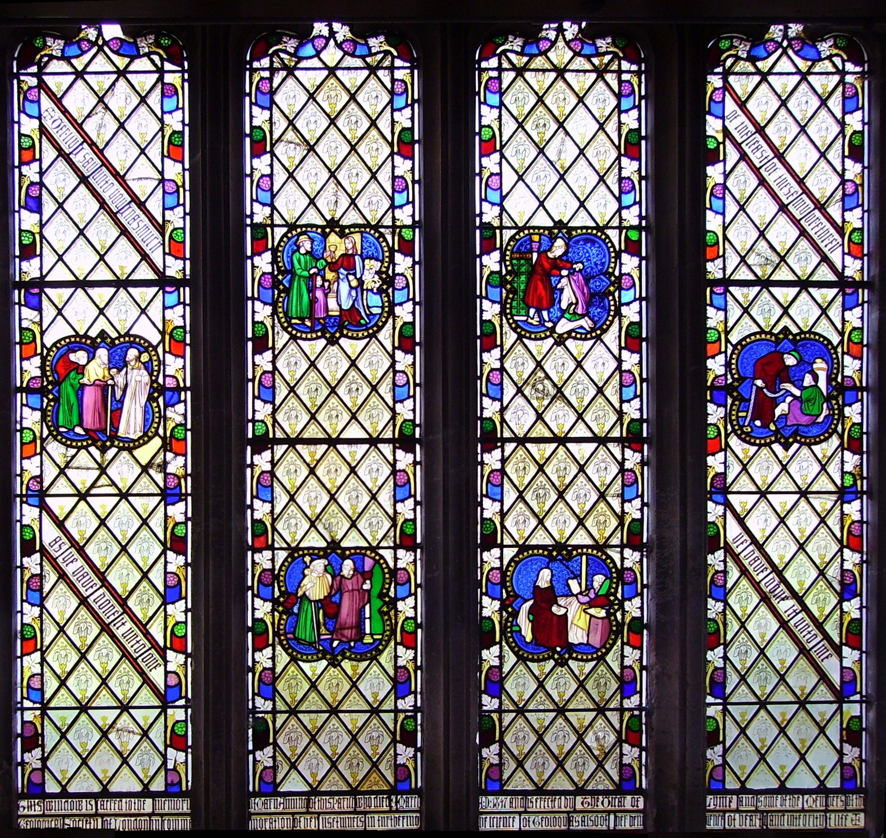 Photographer: User:Ballista